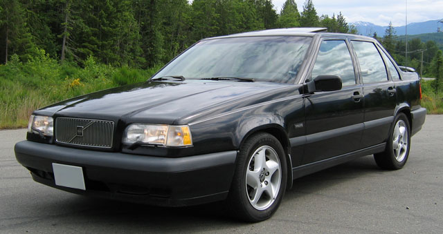 1994 Volvo 850 Turbo. This is my personal car.